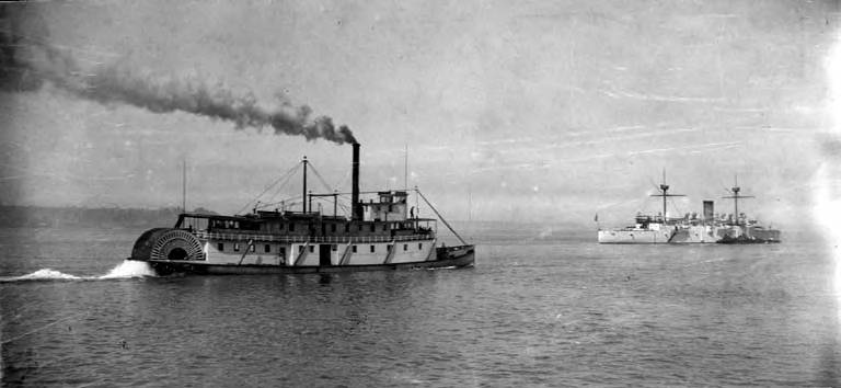 Built as the stern-wheel steamer Dalton by Capt. Troup, she was purchased in 1900 by the S. Willey Navigation Co., renamed to Capital City, and placed on the Seattle-Tacoma-Olympia route to replace the City of Aberdeen (p. 57). In 1902 she collided with the Candian freight steamer Trader off the coast of Tacoma, and had to undergo repairs (p. 85). [Notes from Gordon Newell, ed., The H.W. McCurdy Marine History of the Pacific Northwest (Seattle: Superior Publishing Co., 1966)].